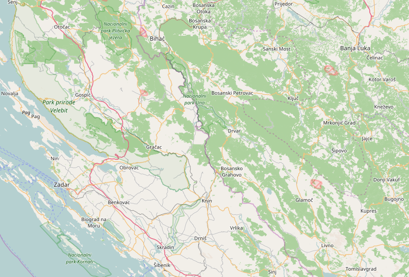 Map of Lika and Northern Dalmatia in Croatia and a part of Western Bosnia in Bosnia and Herzegovina